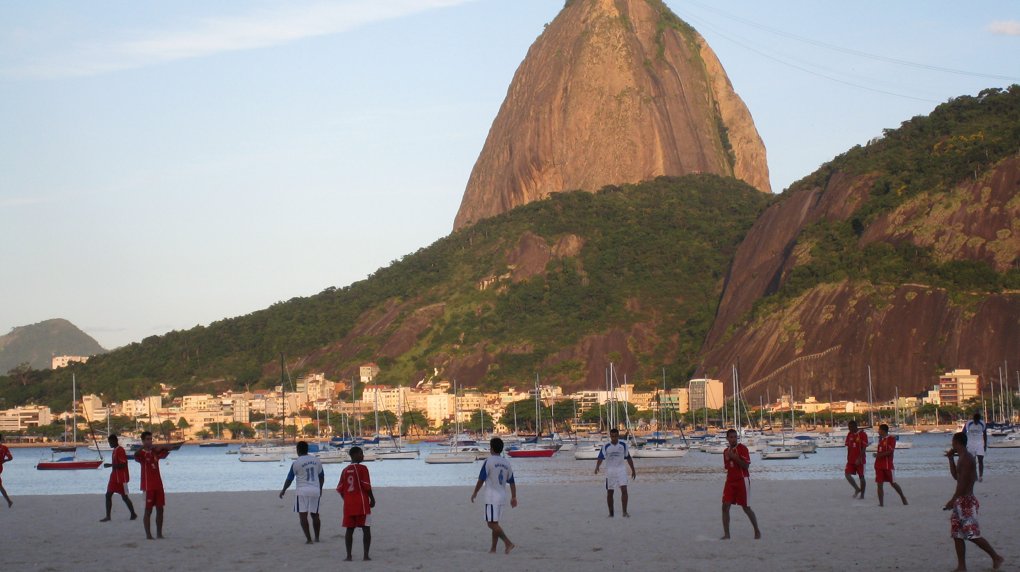 After going up to Sugarloaf we caught a bus to one of the many beaches in Rio and watched some "futbol"